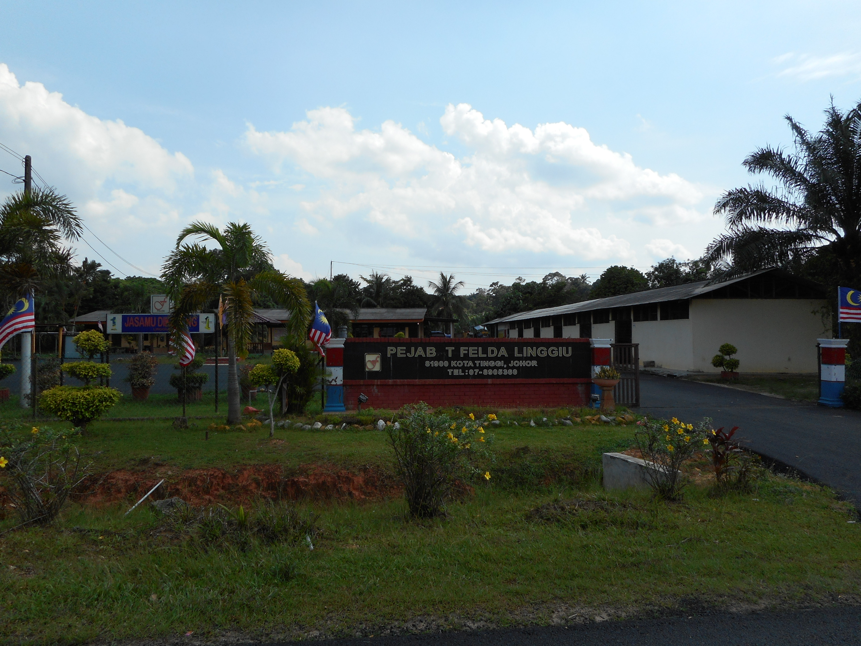 FELDA Linggiu Office, FELDA Linggiu, Kota Tinggi, Johor, Malaysia